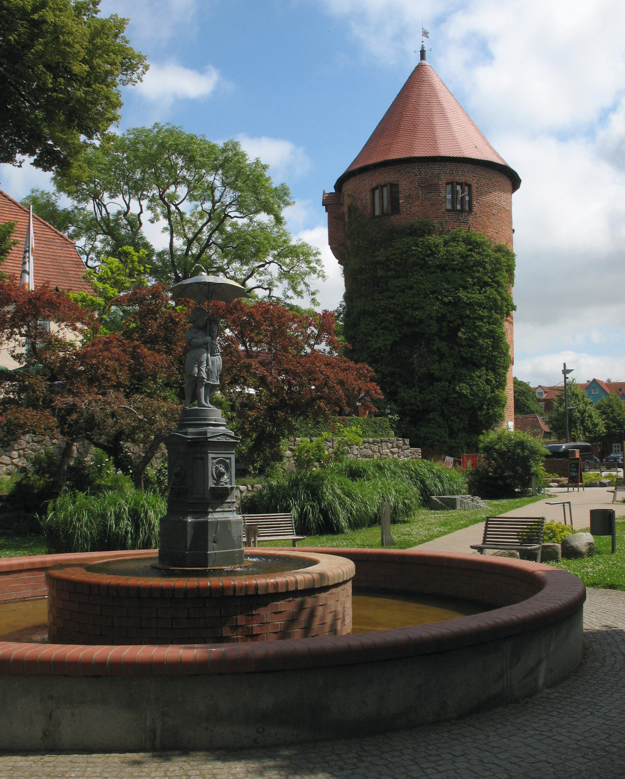 Fountain by Christian Genschow and defence tower in Lübz in Mecklenburg-Western Pomerania, Germany